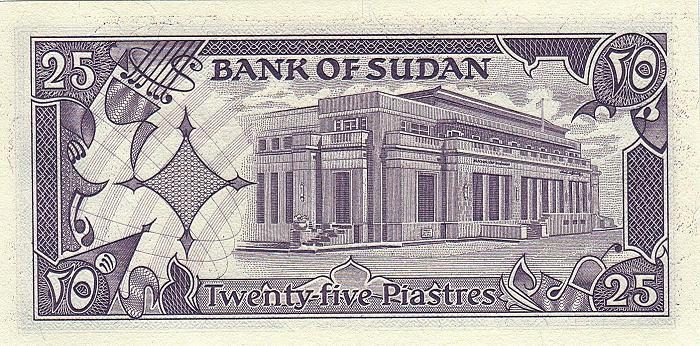 Reverse of a 25 piastres banknote of Sudan. Series 1987 (issued 1987-1990).